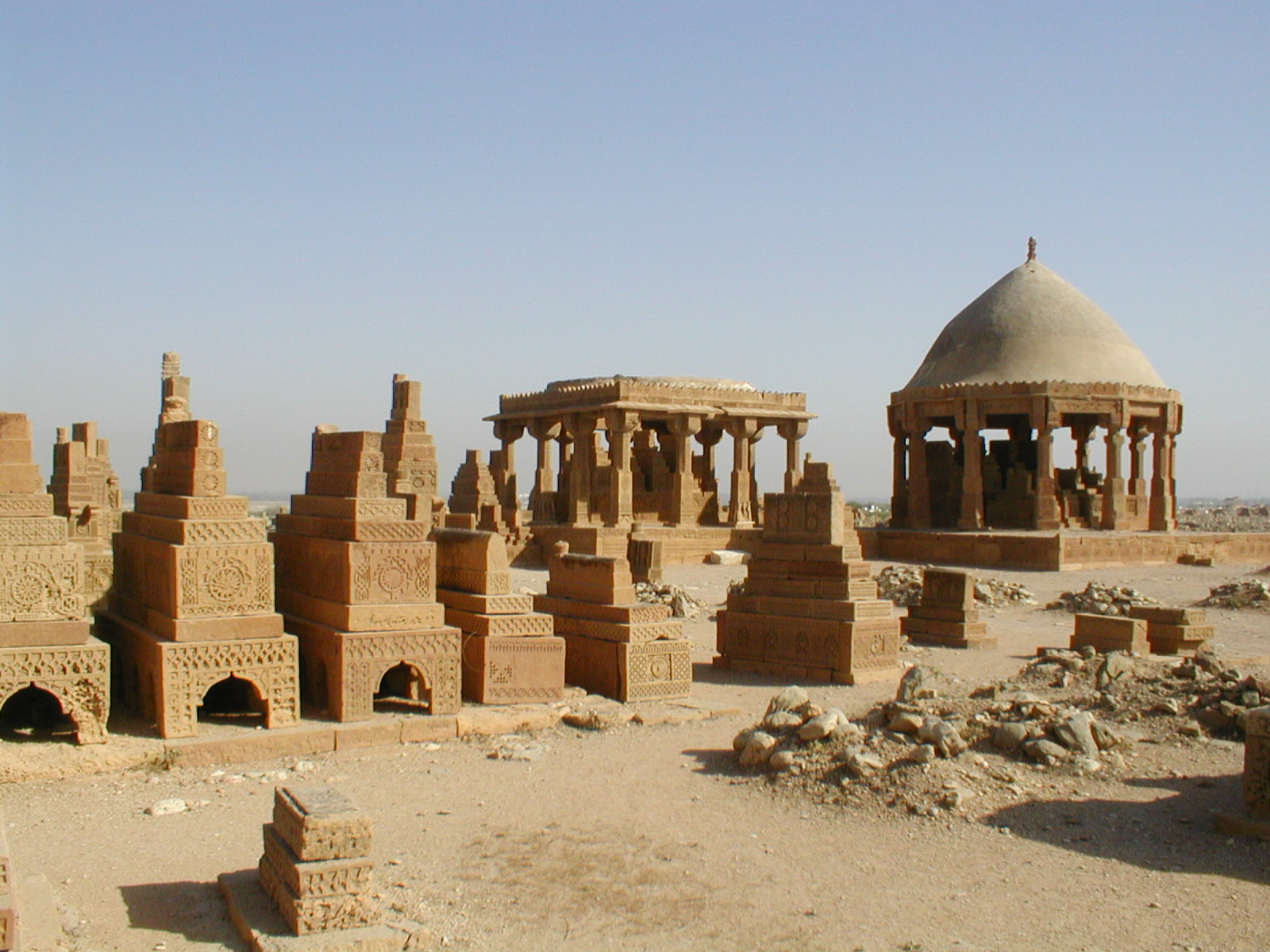 Tombs and graves at Chaukundi. Picture taken in October 2005.